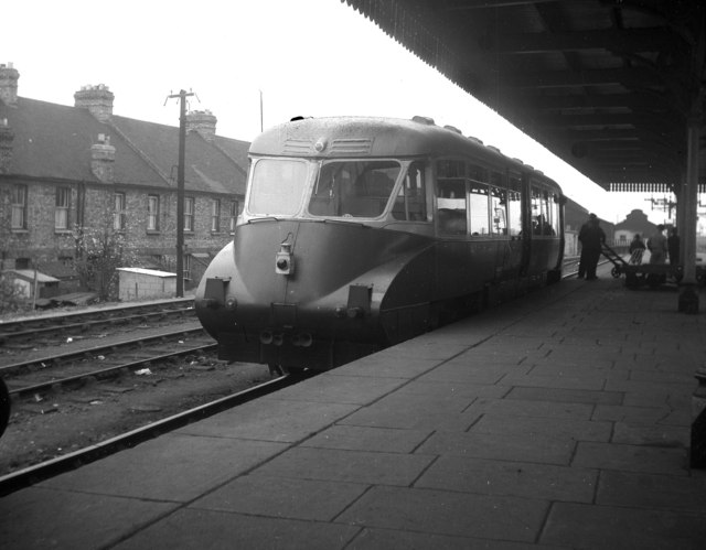 GWR railcar at Oxford